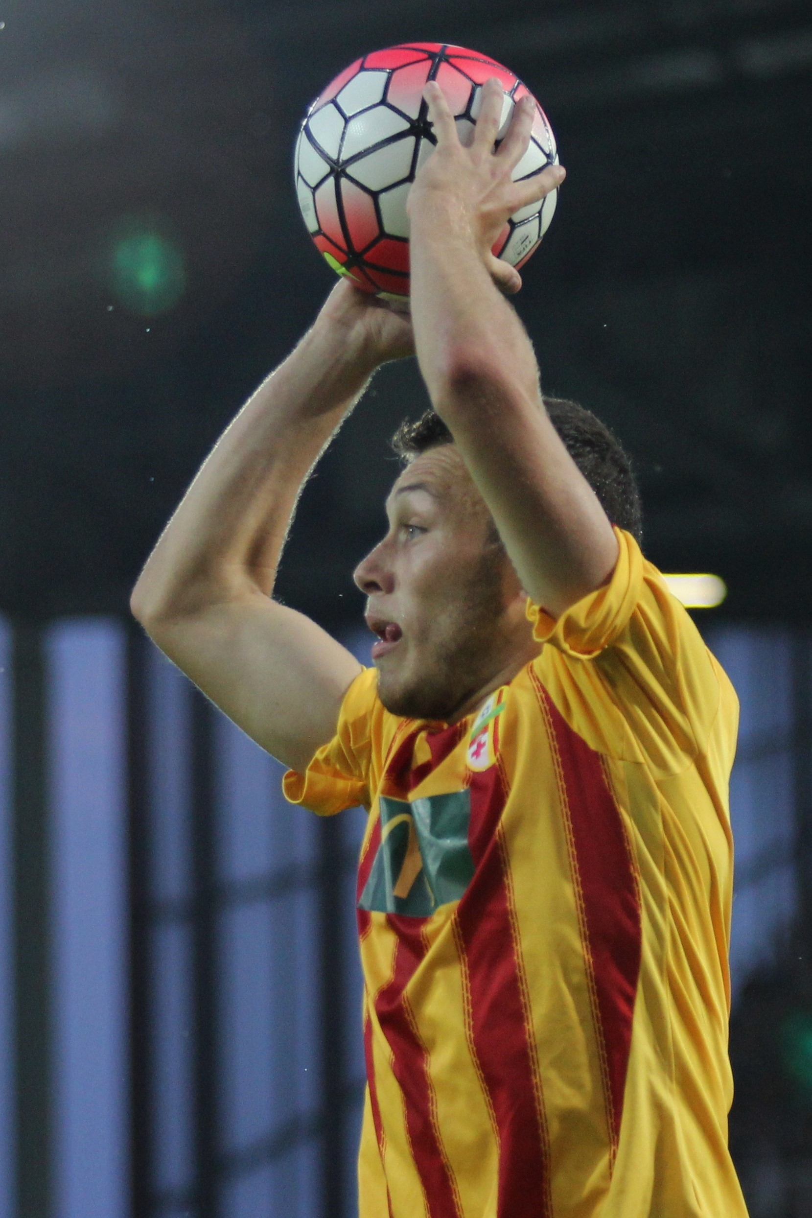 Ryan Camenzuli of Birkirkara prepares to take a throw-in against West Ham.